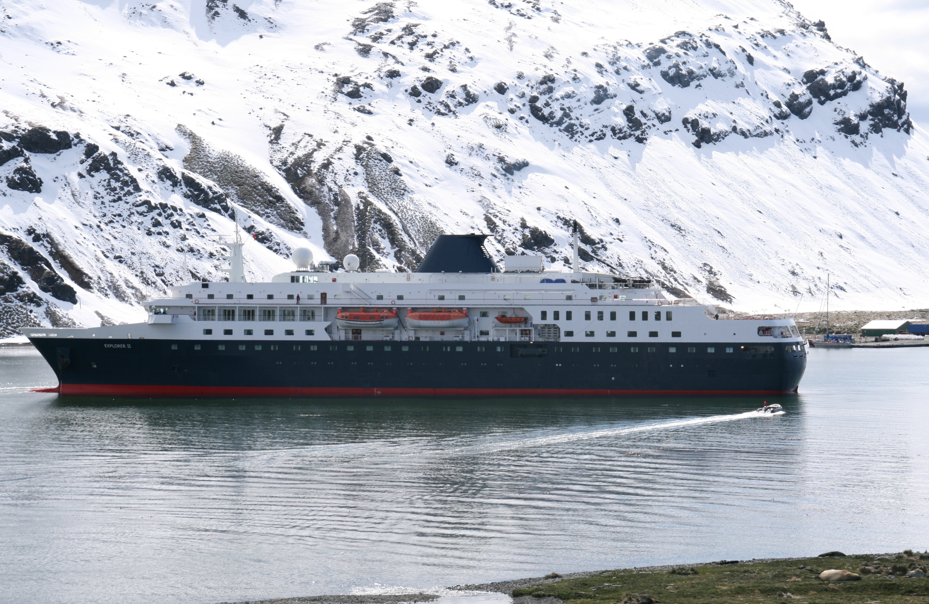 Explorer II (later Minerva) at anchor, Grytviken, South Georgia.